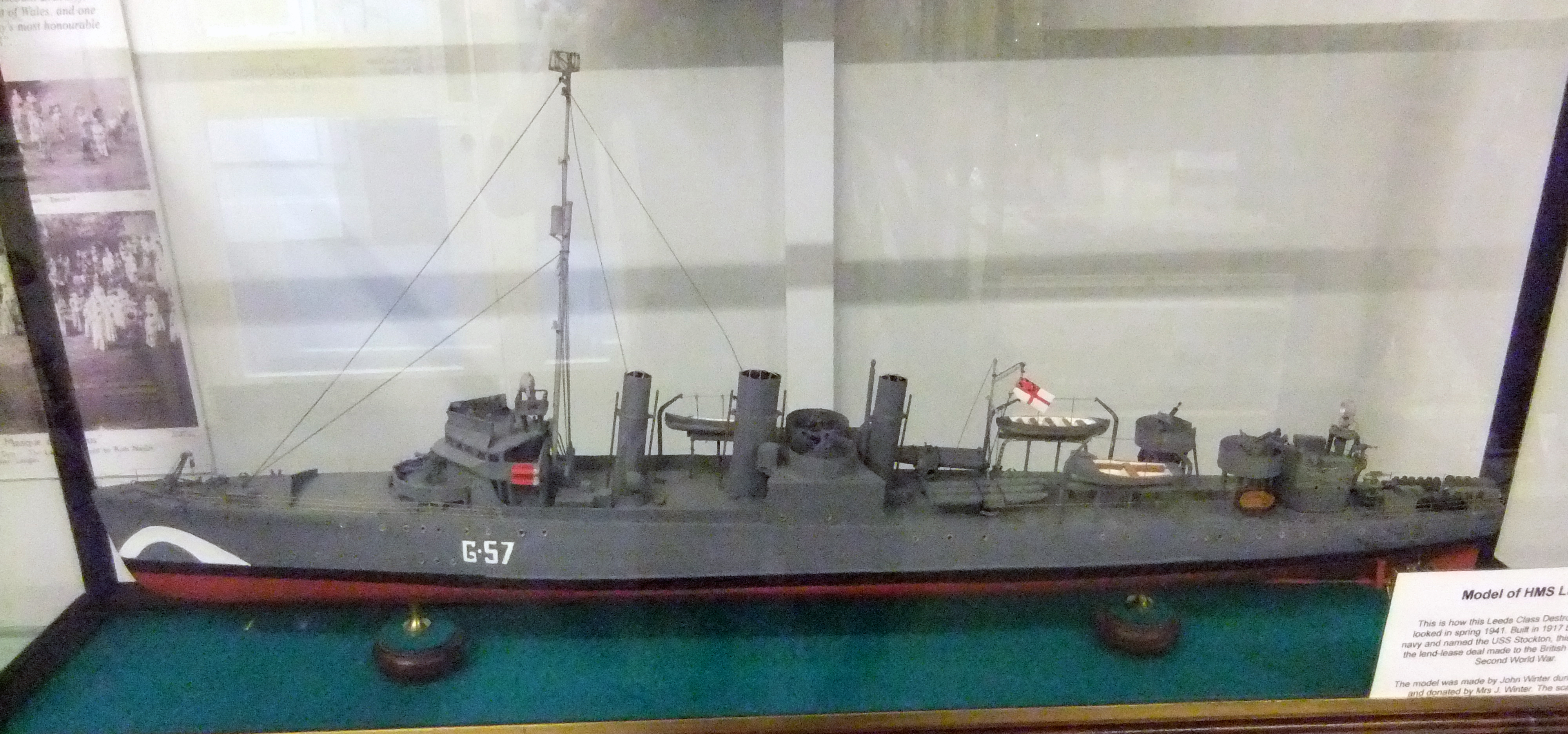 Model ship. Photo taken at Ludlow Museum, Castle Street, Ludlow, Shropshire, England.